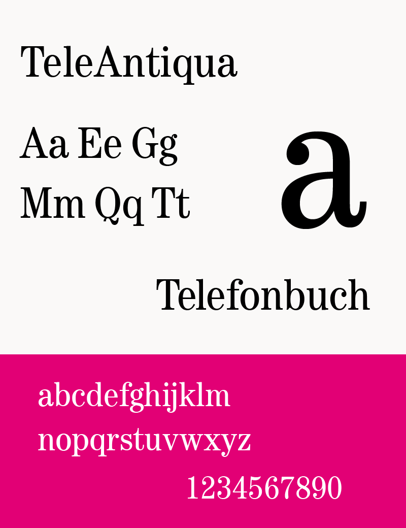 Sample of TeleAntiqua (typeface made for Telekom)